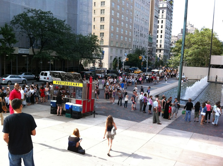 Queues at the Savage Beauty exhibition, The Met (NYC)